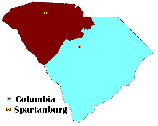 Map of South Carolina indicating the boundaries of the Eastern and Western judicial divisions, the status of which was at issue in Barrettt v. United States.